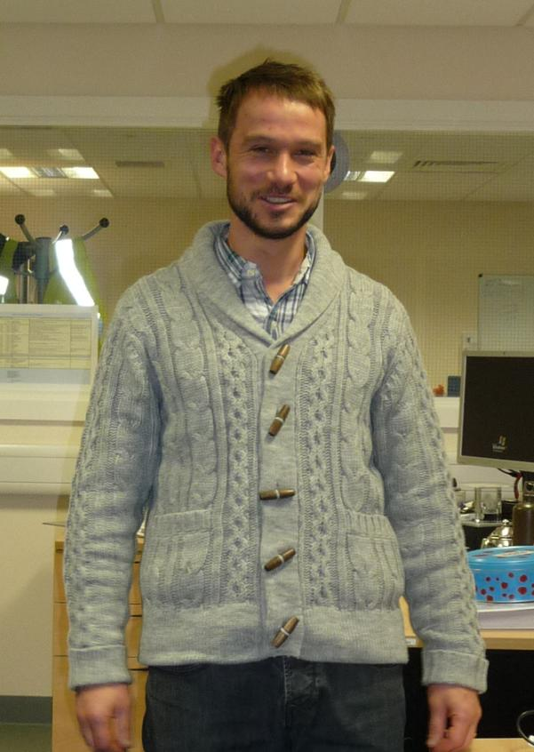 Modern reinvention of a classic old duffers cardigan